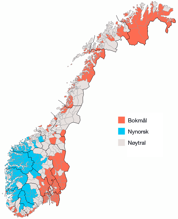 A map of the official language forms (målform) of Norwegian municipalities